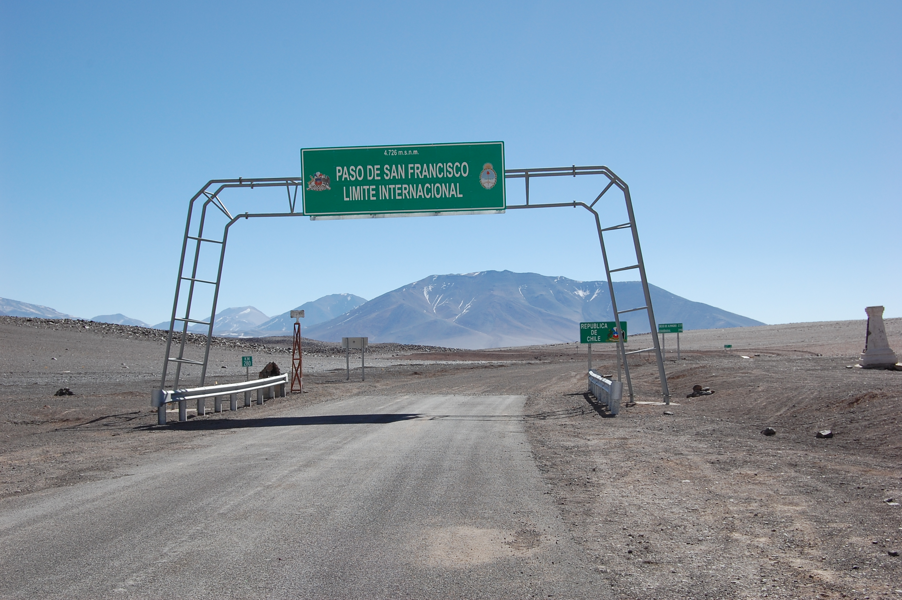 Paso San Francisco between Argentina and Chile at 4726 m.a.s.l., Argentinian side